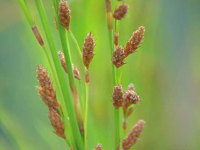 Species: Restio tetraphyllus Family: Restionaceae Image No. 1